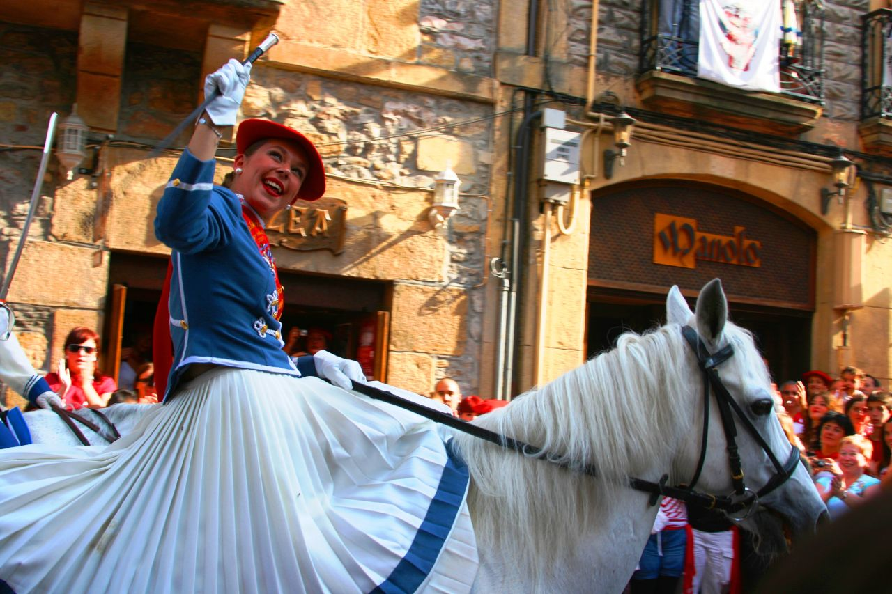 Kantinera in Alarde of Irun.